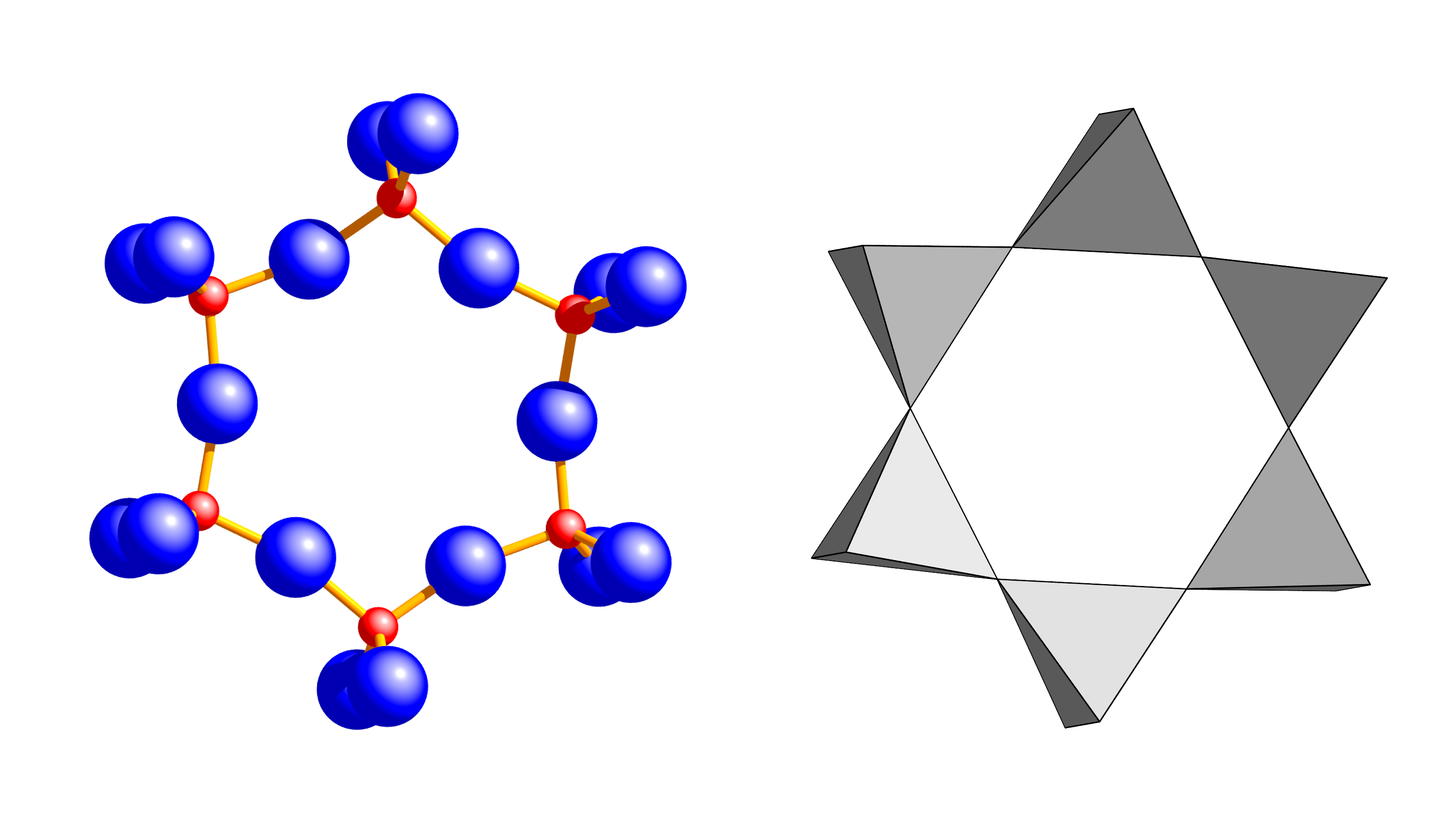 Unbranched 6er single ring of beryl Data from: Brown G. E., Mills B. A. (1986): High-temperature structure and crystal chemistry of hydrous alkali-rich beryl from the Harding pegmatite, Taos County, New Mexico, American Mineralogist 71, pp. 5547-556 Calculation of image data: Larry W. Finger, Martin Kroeker, and Brian H. Toby, DRAWxtl, an open-source computer program to produce crystal-structure drawings, J. Applied Crystallography V40, pp. 188-192, 2007 Rendering: POVRAY